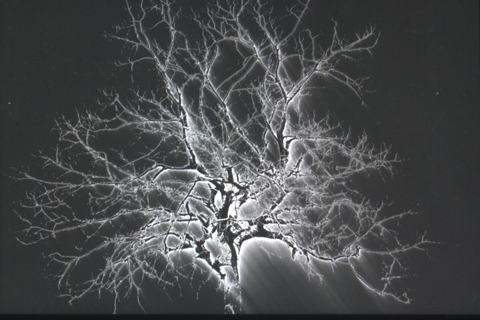 After developing print in a developer without movement, print was taken out of the developer and fixed. Bright stripes appeared where development was inhibited by bromide, part of the oxidation products